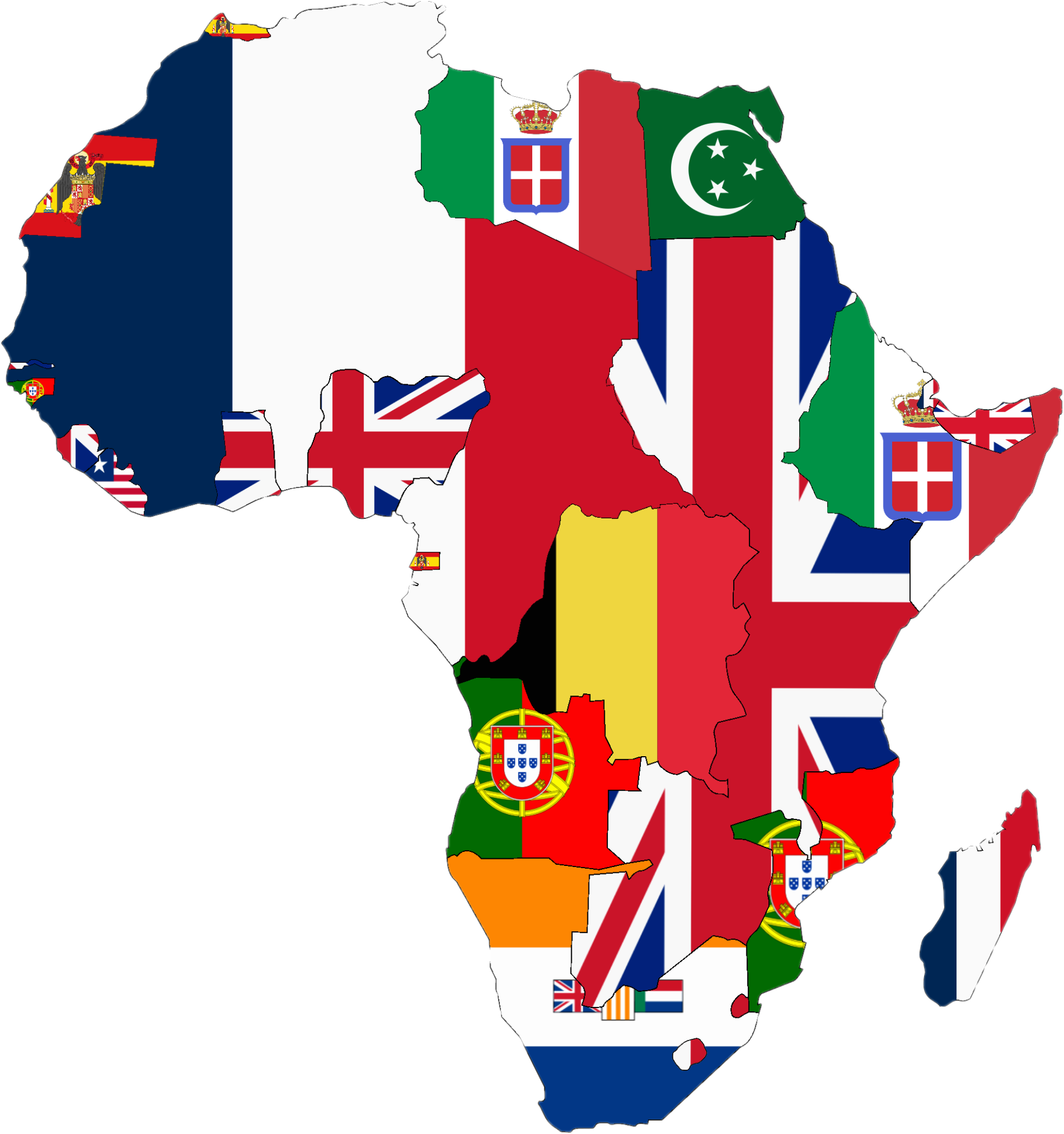 Flag map of Colonial Africa (1939)